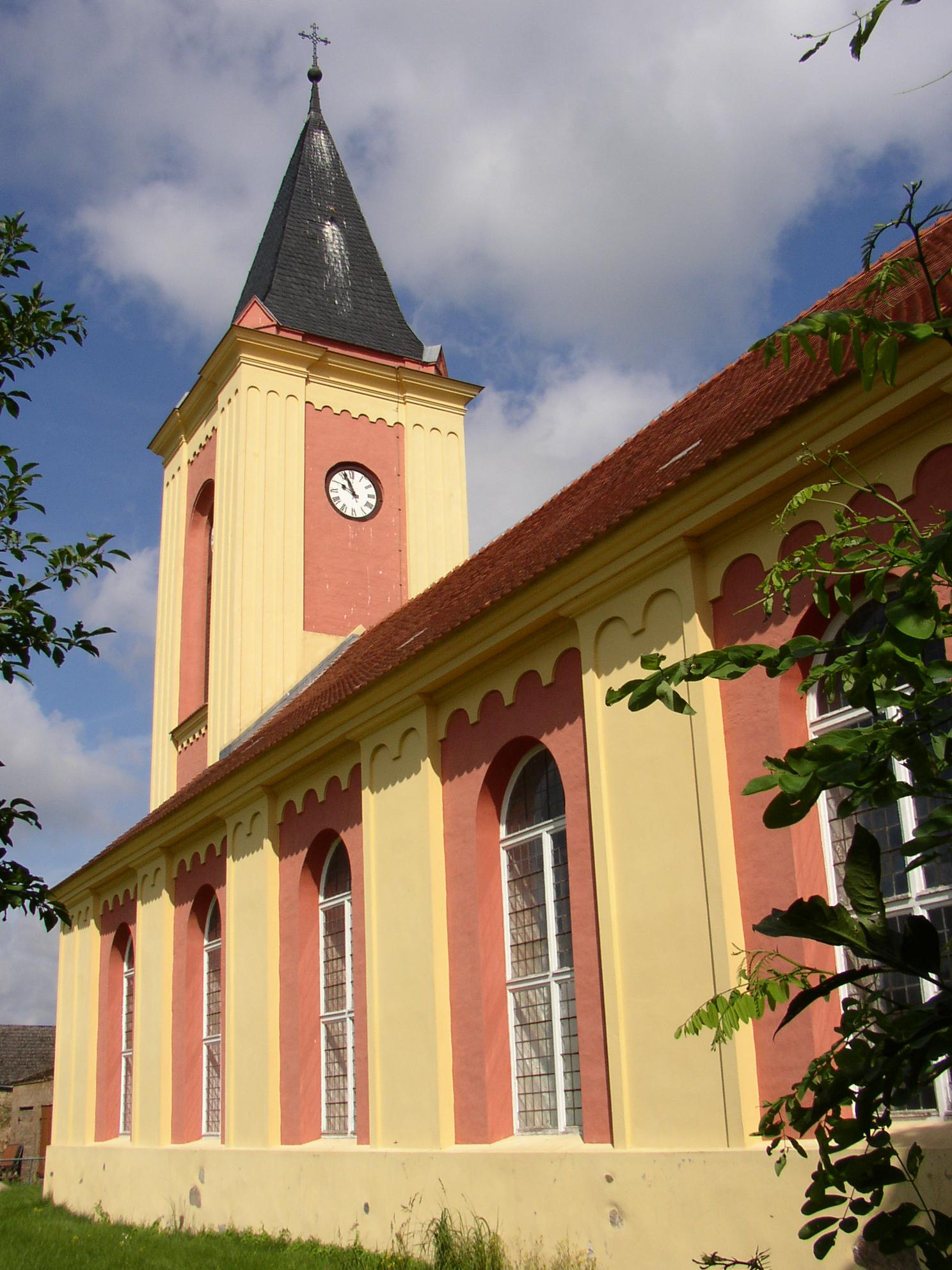 Church in Rüthnick in Brandenburg, Germany